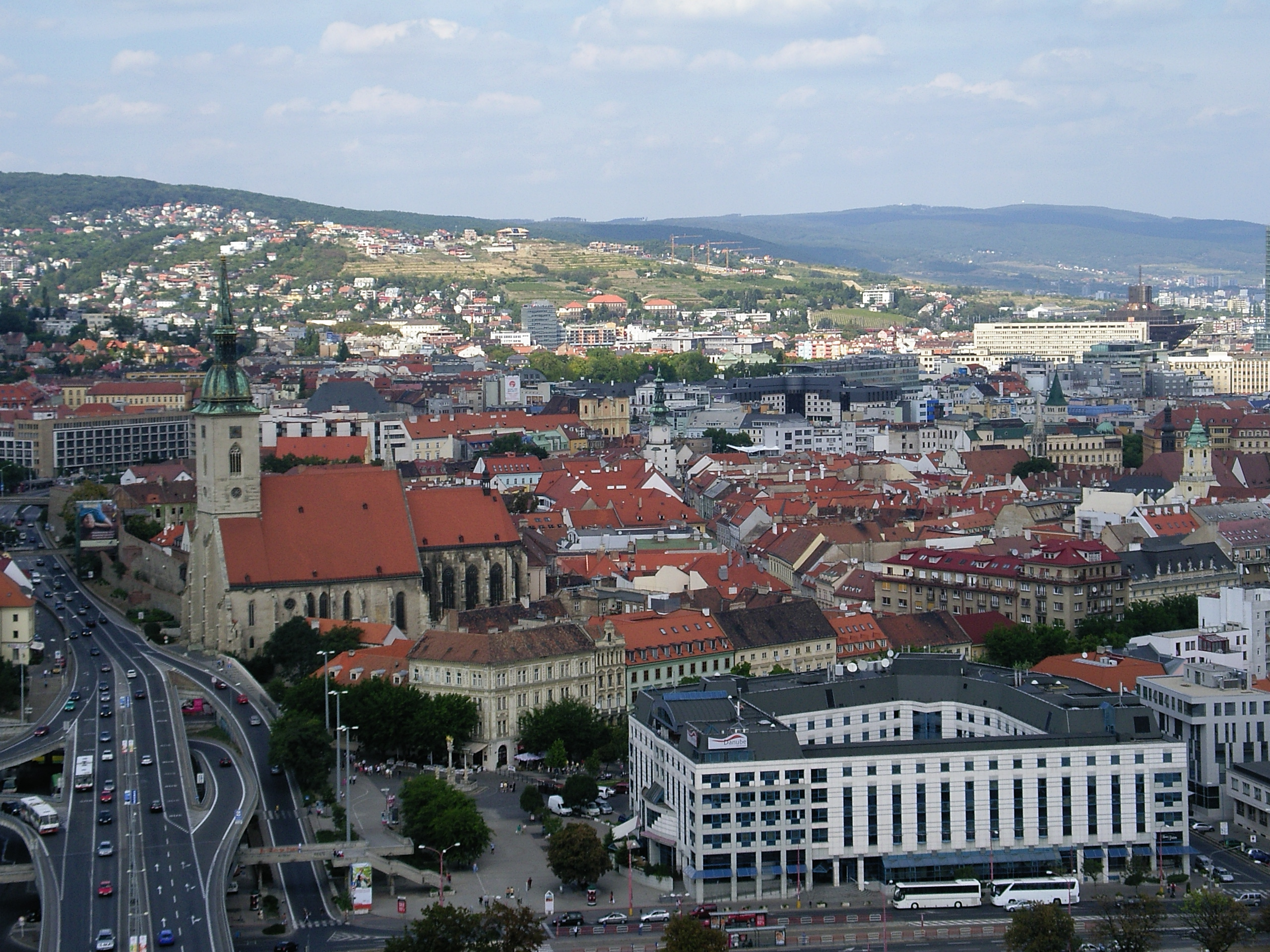 View from Nový most (Bratislava)